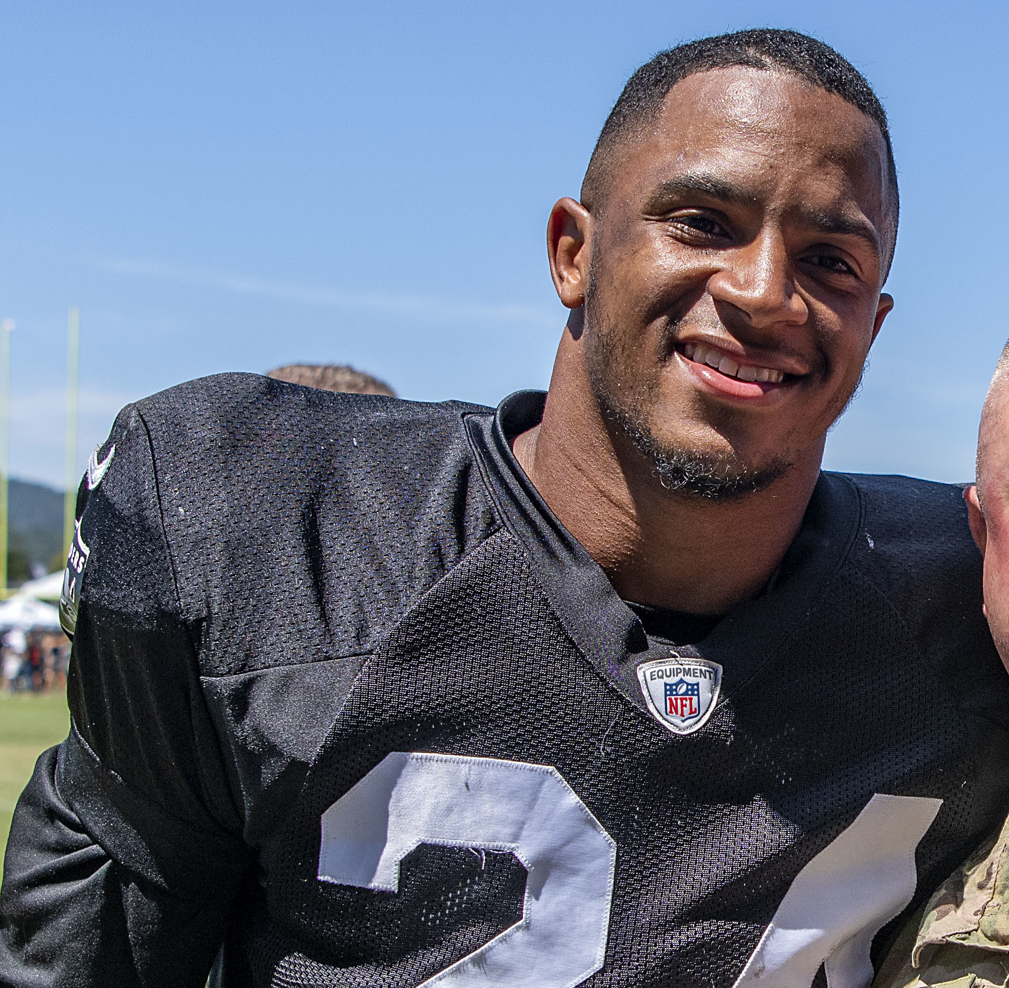 Oakland Raiders rookie safety, Johnathan Abram, posing for a photo with a member of the United States Air Force during 2019 training camp.